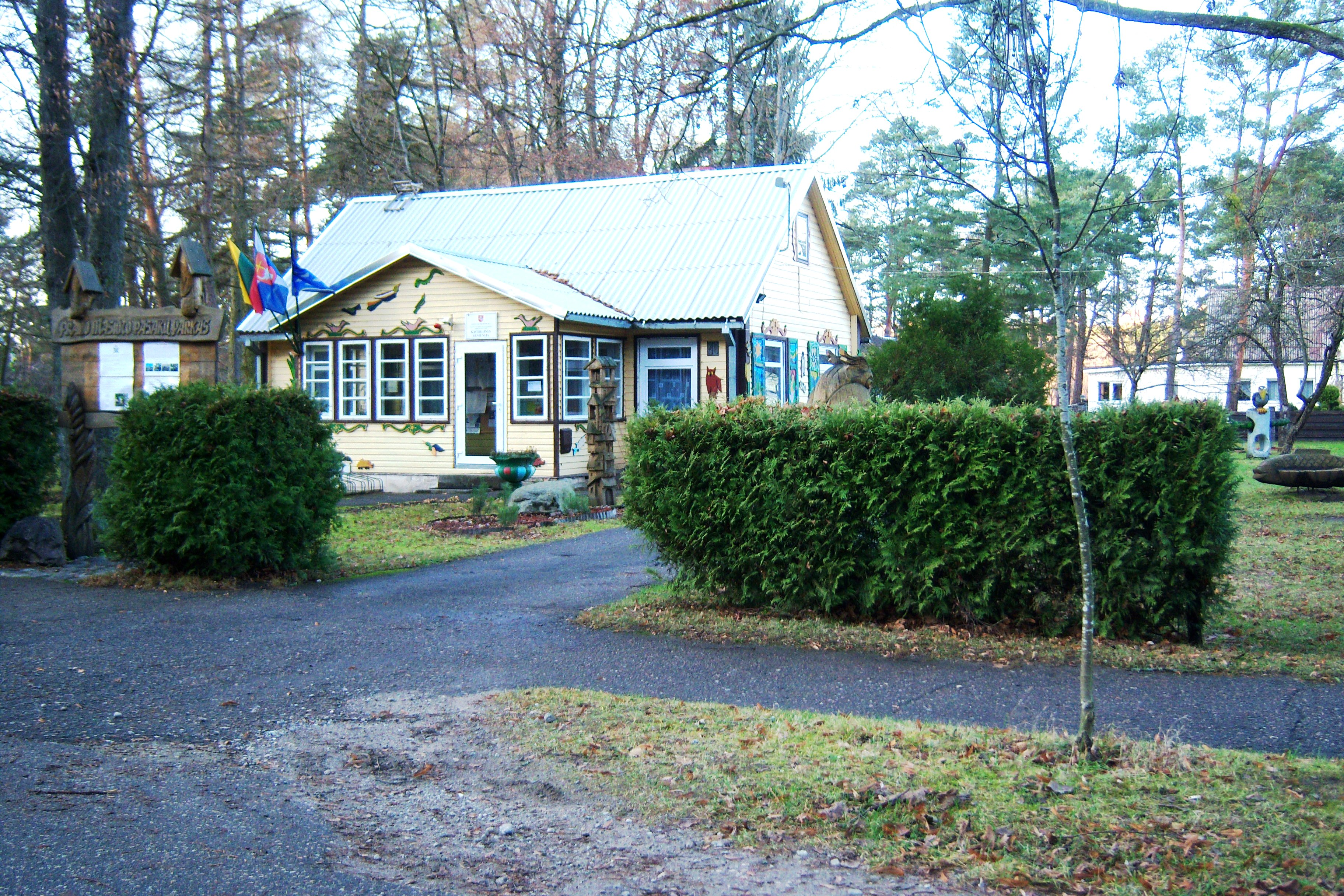 Kačerginė, eldership, Kaunas District. Lithuania